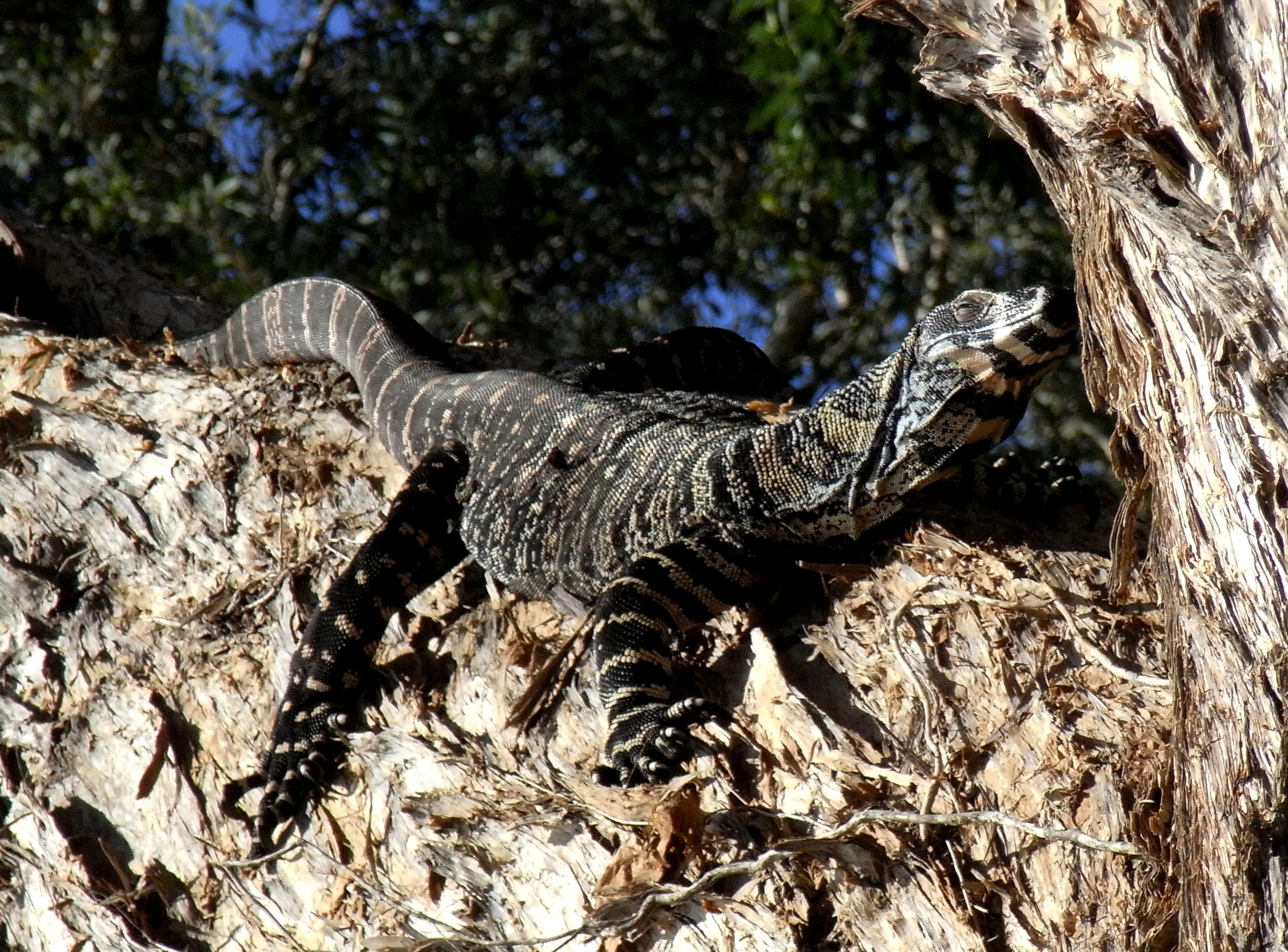 Lace monitor/Goanna (Varanus varius) basking on a branch at Mungo Brush, Myall Lakes National Park, Australia.